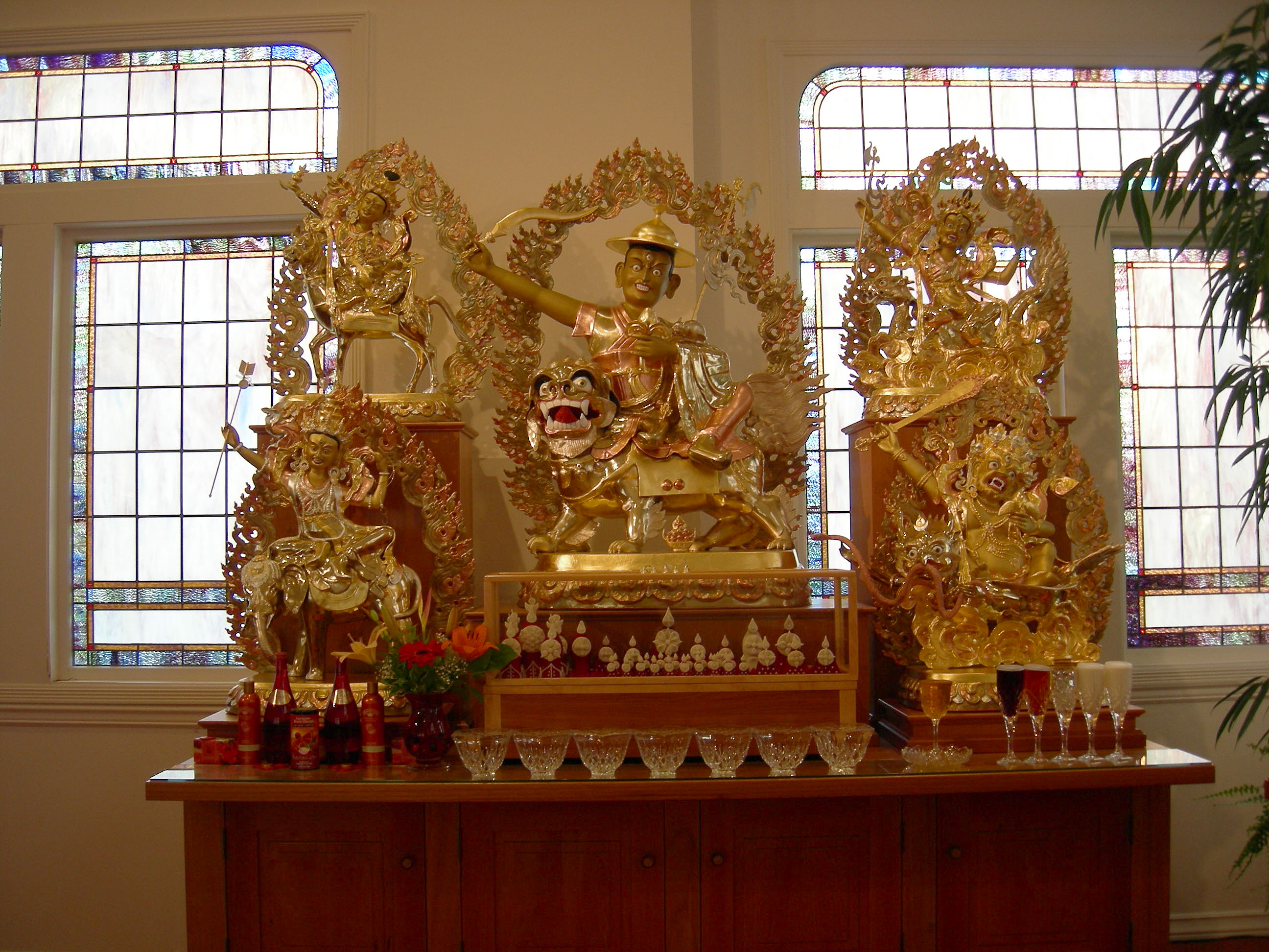 Interior, Kadampa Buddhist Temple, 6556 24th Ave NW (Ballard neighborhood) Seattle, Washington, USA. Statues of Dharma Protector Dorje Shugden (center) and his retinue, stained glass window.